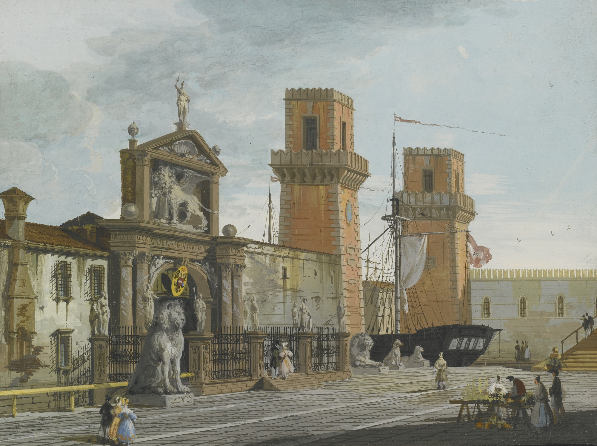 View of the Aresenale, Venice